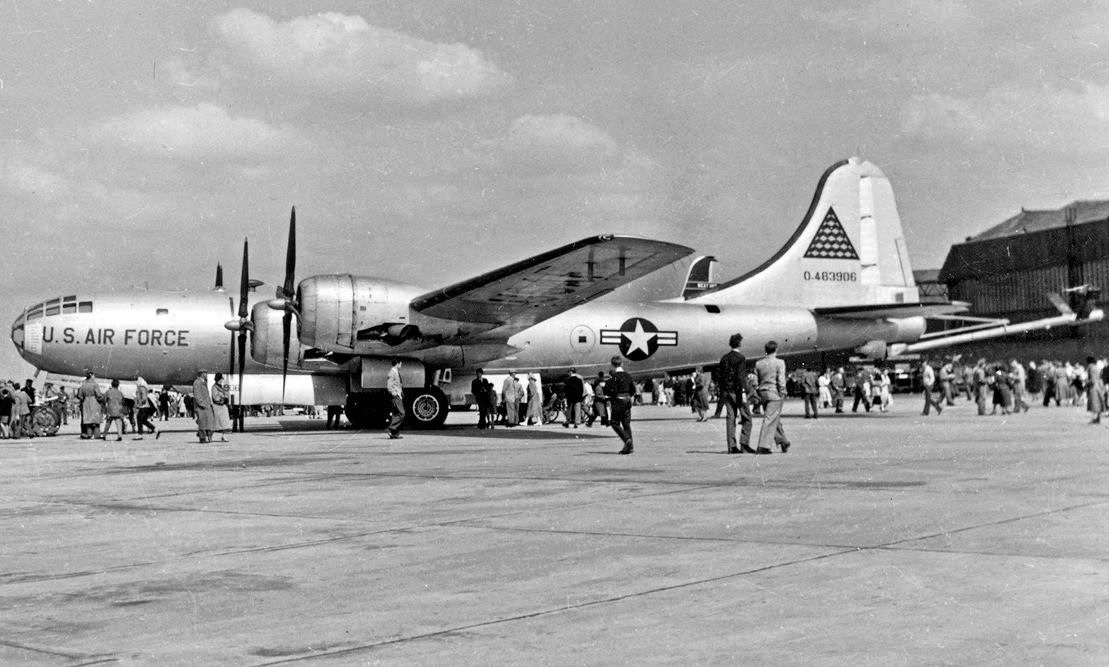 Boeing KB-29P Superfortress 44-83906 of 420 Air Refuelling Squadron based at RAF Sculthorpe, Norfolk.